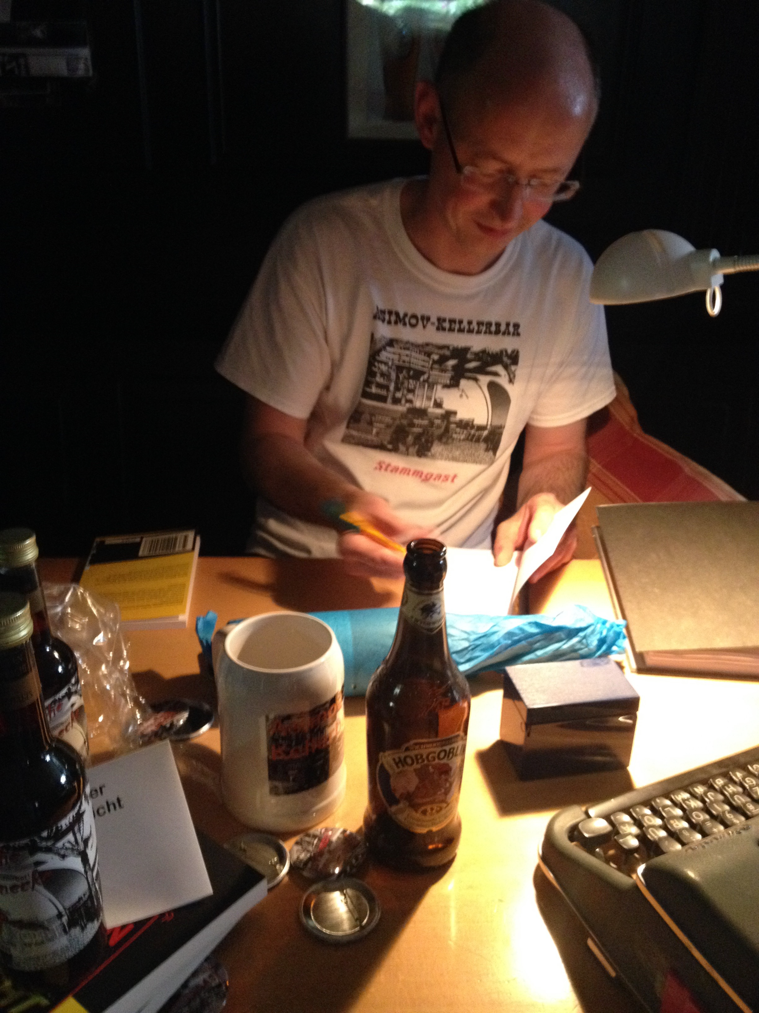 Klaus Marion at Grünstadt Science Fiction Days. Book-signing after author reading.